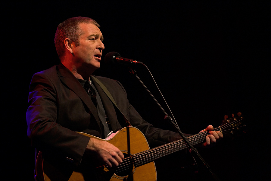 Concert Photo of Rev Hammer in Berlin, Kesselhaus, 24.01.2009